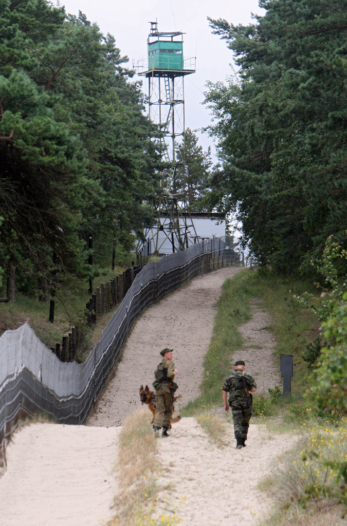 “Russian border guards on Vistula Spit”. Russian border guards patrol the Russian-Polish border on Vistula Spit. The Normeln border outpost is Russia's westernmost.